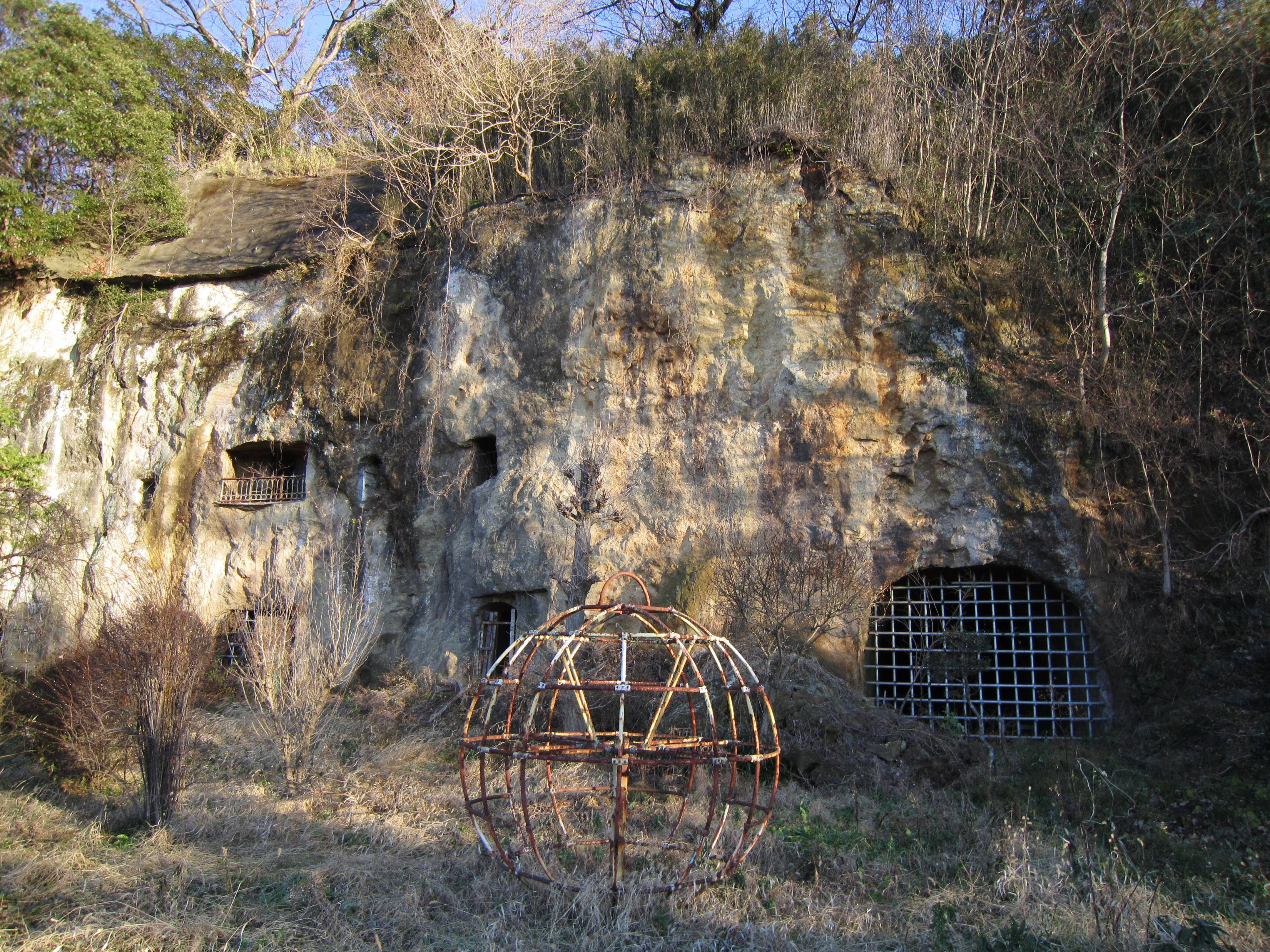 Gankutsu Hotel (Yoshimi, Saitama).